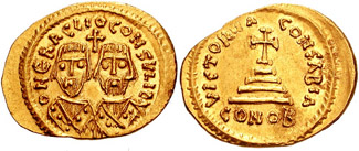 REVOLT of the HERACLII. 608-610 AD. AV Solidus (4.49 gm). Alexandretta or Cyprus mint. Dated indictional year 11 (608 AD). DN ERACLIO CONSVLI BA, facing busts of the Exarch Heraclius and his son, both bearded and wearing consular garb / VICTORIA CONSL B, cross potent on four steps; IA/CONOB. DOC II 11 (same obverse die); MIB III 3; SB 719 (Alexandria). Superb EF. [See color enlargement on plate 20] ($7500)